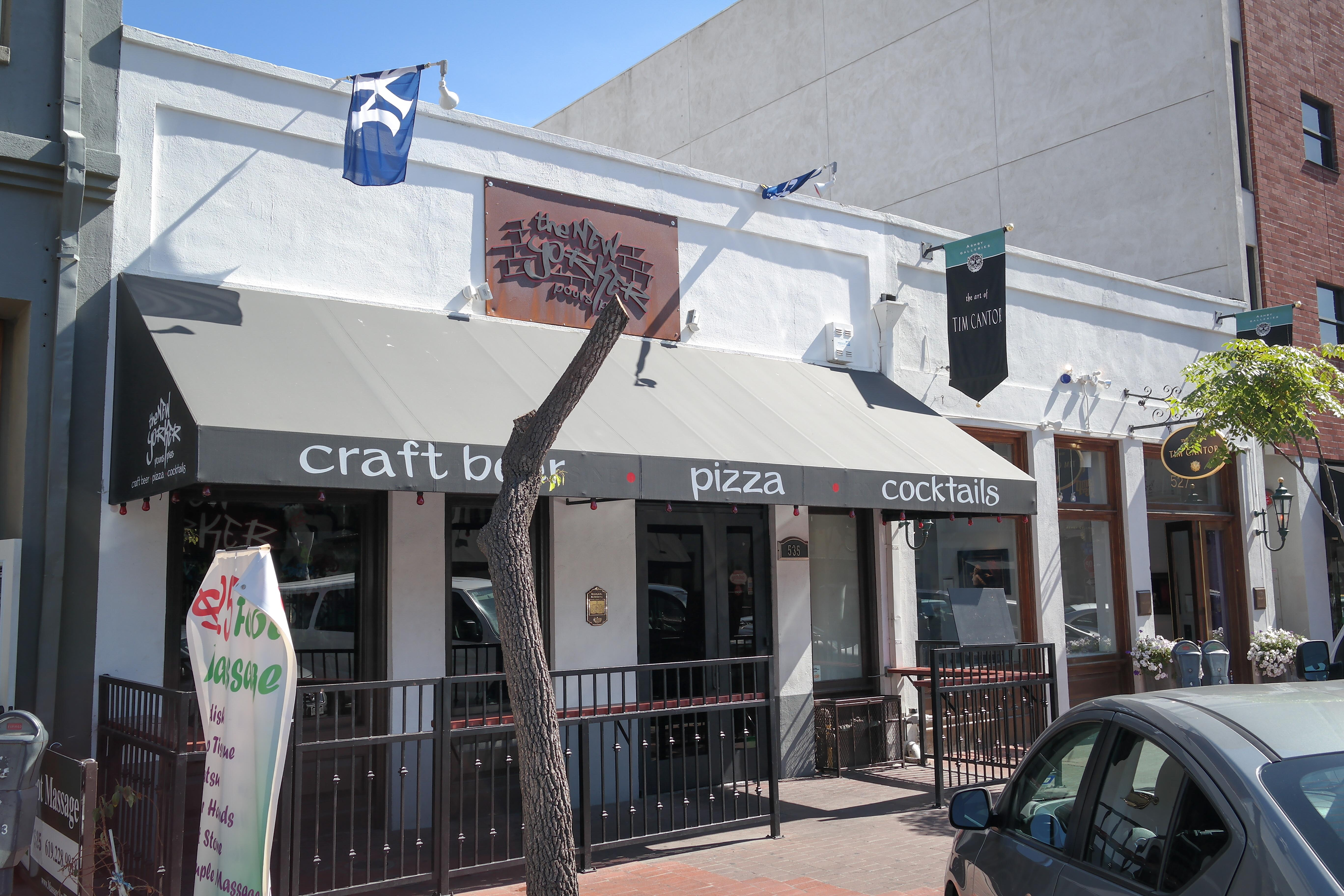 Historic Building Survey plaque: "2 Chinese Laundry, 1923. The south half of this building was the Hop Lee Chong Laundry, a Chinese laundry in continuous use from the building's construction in 1923 until 1964. The north half was the home of several Oriental businesses such as the "American Company," "Sunset Company," and "Tuck and Tong Herb Company." It also served as living quarters for local Oriental tenants, including various operators of the laundry."